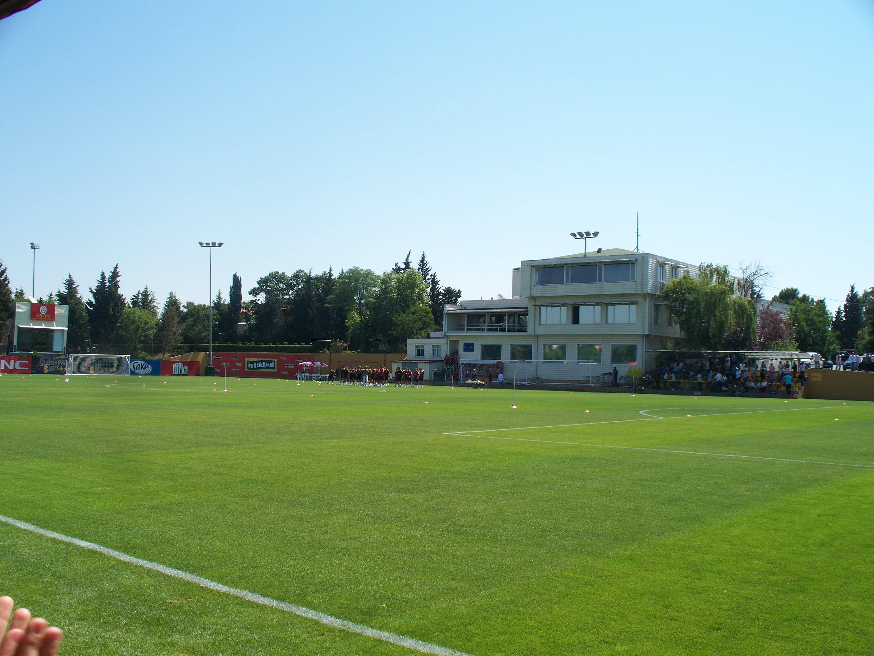 Florya Metin Oktay Sports Complex and Training Center in Turkey.